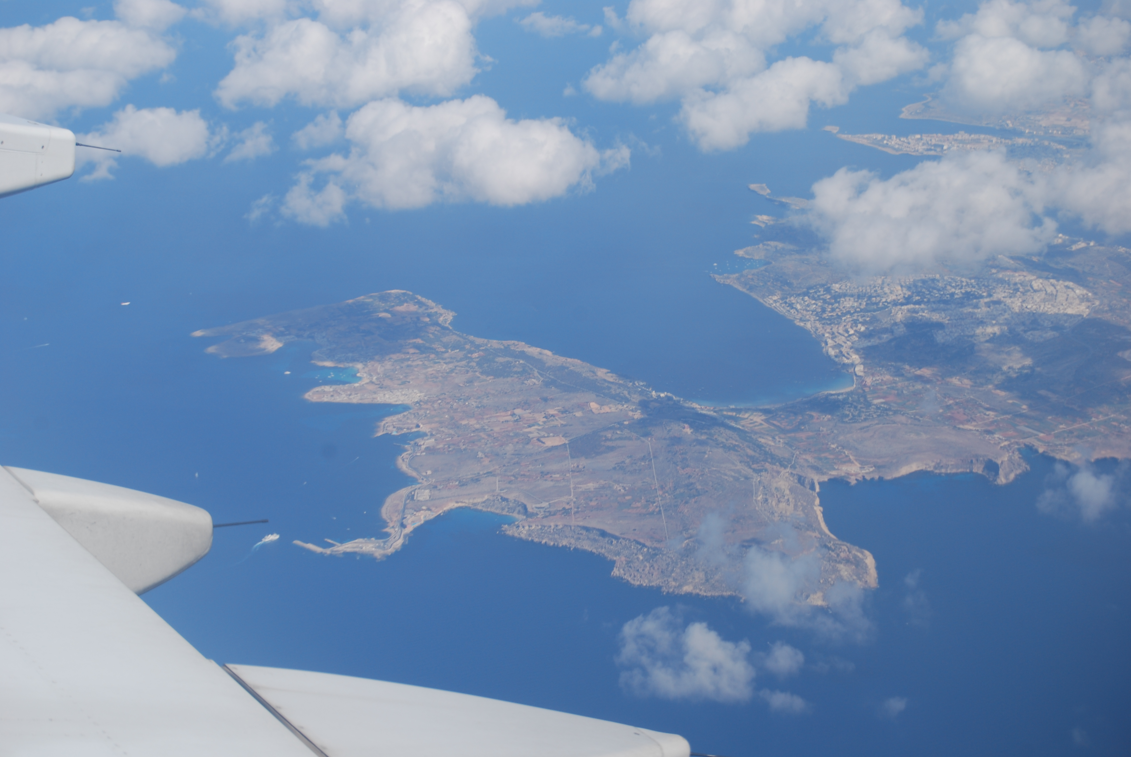 Aerial photograph of Mellieħa, MaltaEsperanto: Aerfoto de Mellieħa, Malto